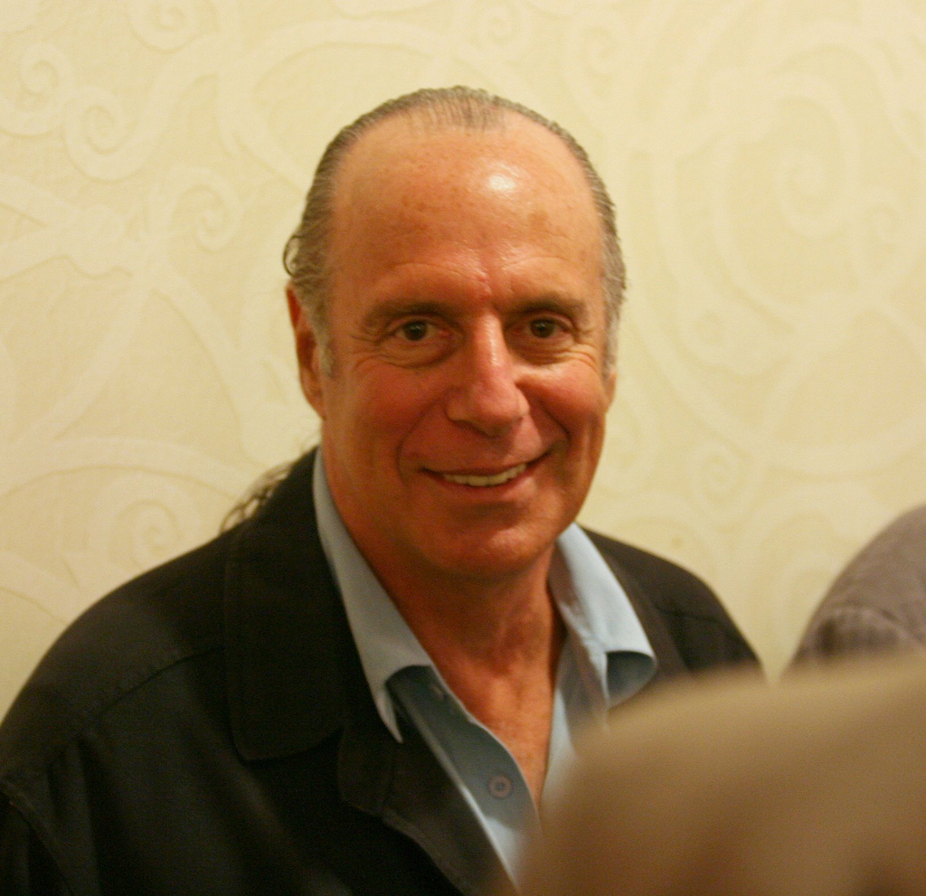 American stand-up comedian Kenny Kramer. Kramer was the inspiration for the character of "Cosmo Kramer" on the television series Seinfeld.